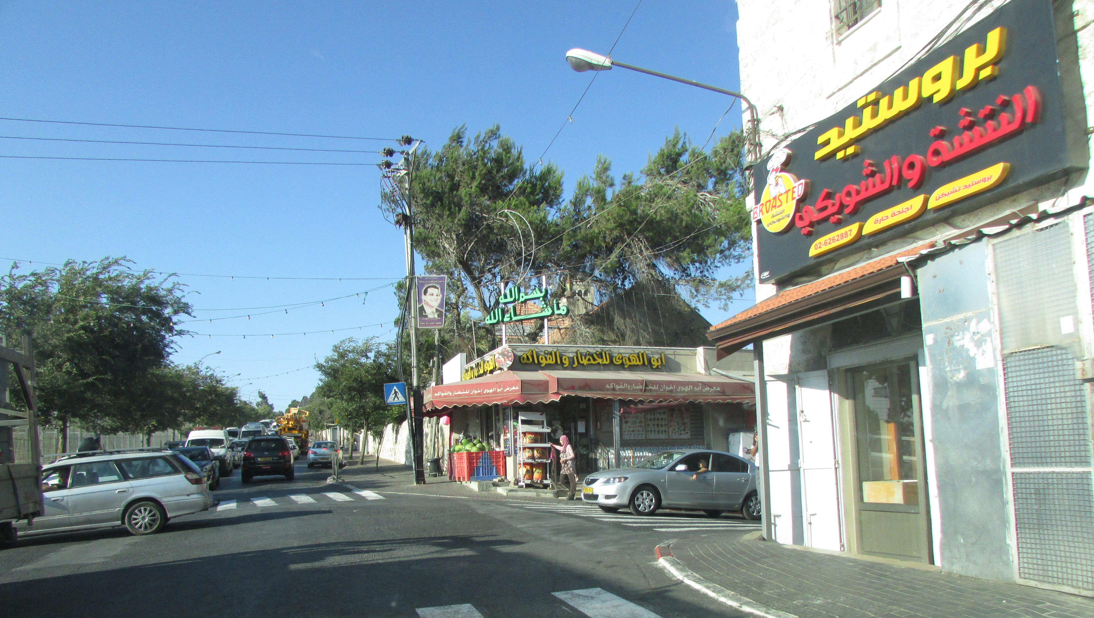 At-Tur neighborhood on Mount of Olives